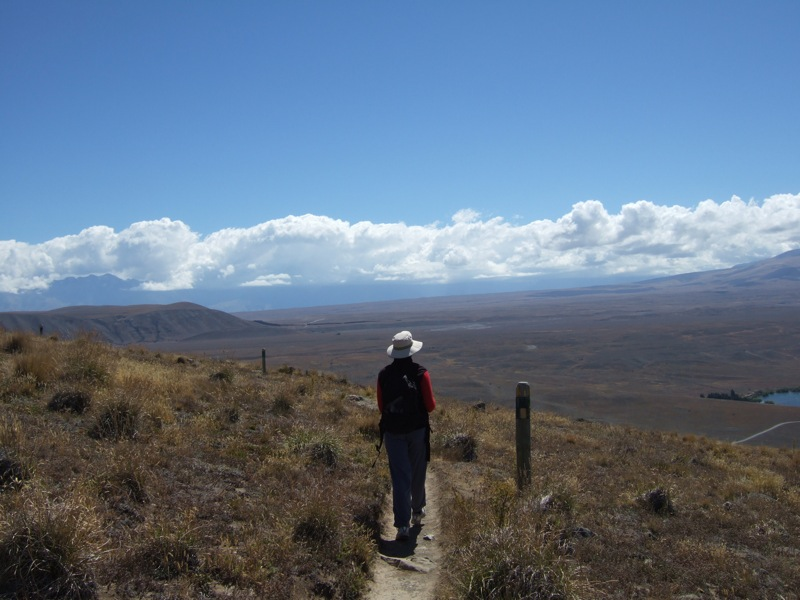 View of Mackanzie Basin (or Mackenzie Country), South Island, New Zealand (typical "High Country" place)